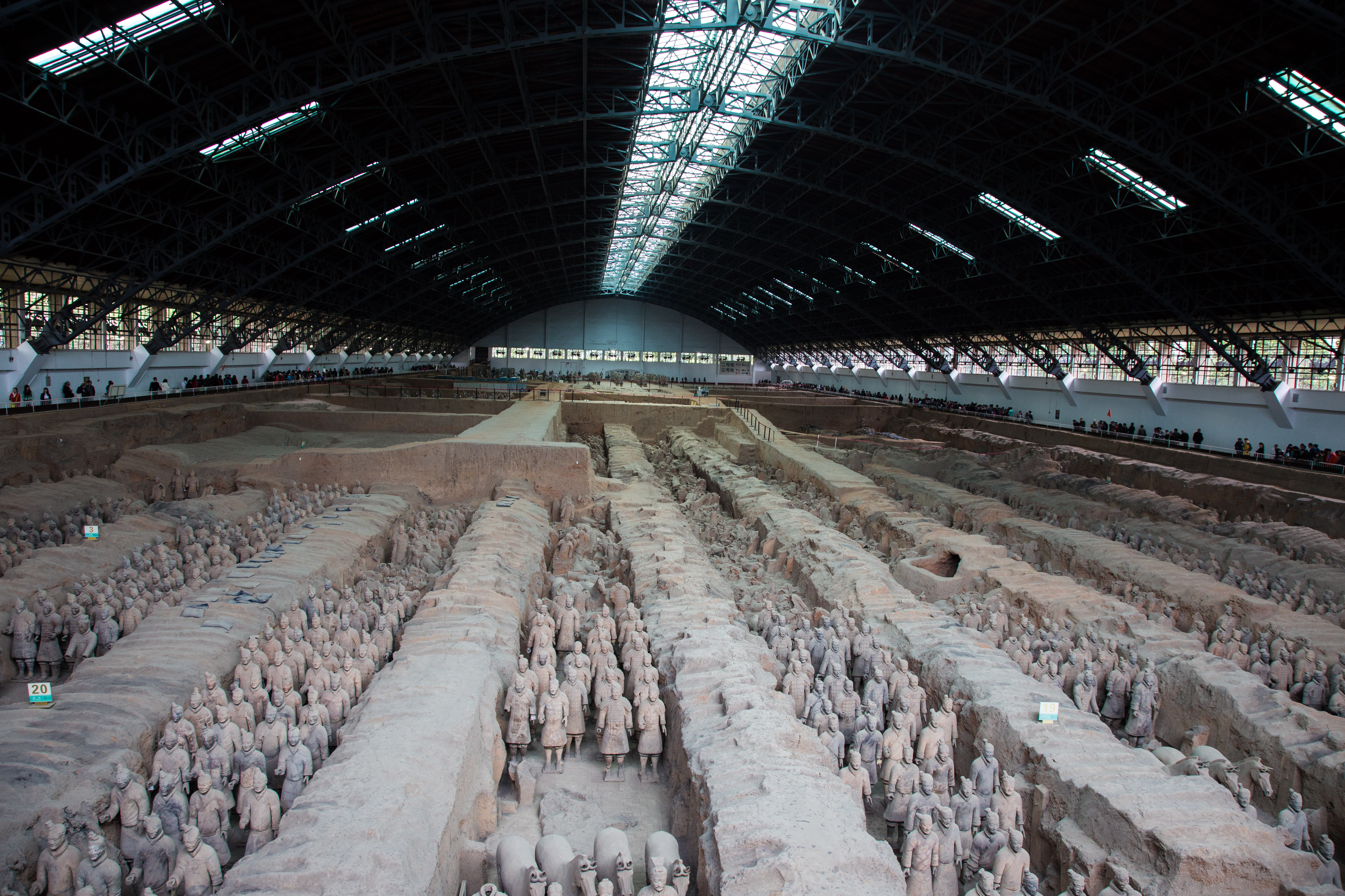 Pit one, which is 230 metres (750 ft) long and 62 metres (203 ft) wide,[30] contains the main army of more than 6,000 figures.[31] Pit one has 11 corridors, most of which are more than 3 metres (9.8 ft) wide and paved with small bricks with a wooden ceiling supported by large beams and posts. This design was also used for the tombs of nobles and would have resembled palace hallways when built. The wooden ceilings were covered with reed mats and layers of clay for waterproofing, and then mounded with more soil raising them about 2 to 3 metres (6 ft 7 in to 9 ft 10 in) above the surrounding ground level when completed. (cc) Wikipedia